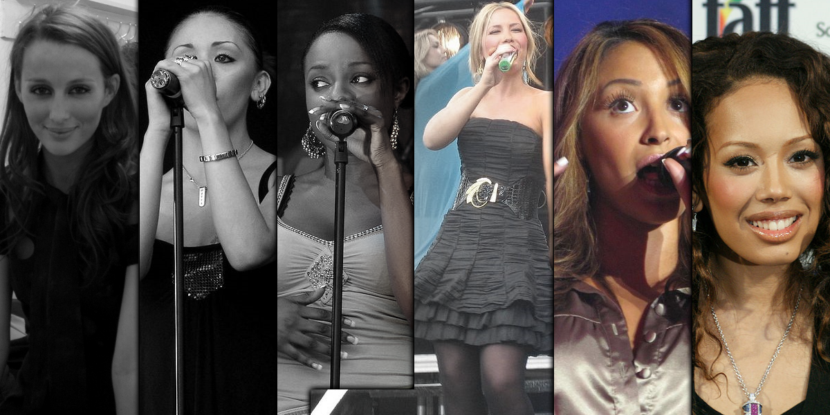 These are all the members of the English girl group the Sugababes, past and present.